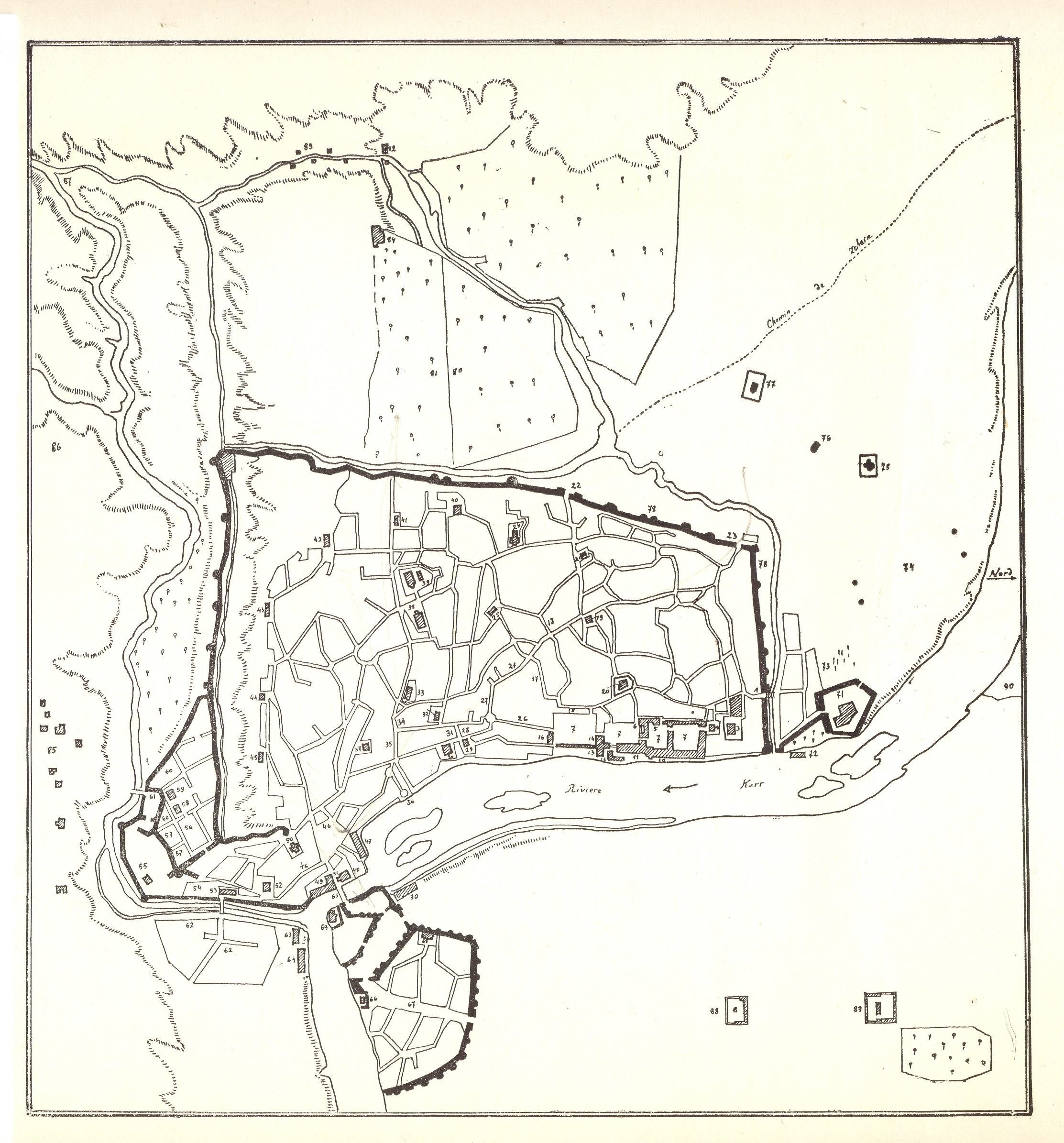 Map of Tbilisi